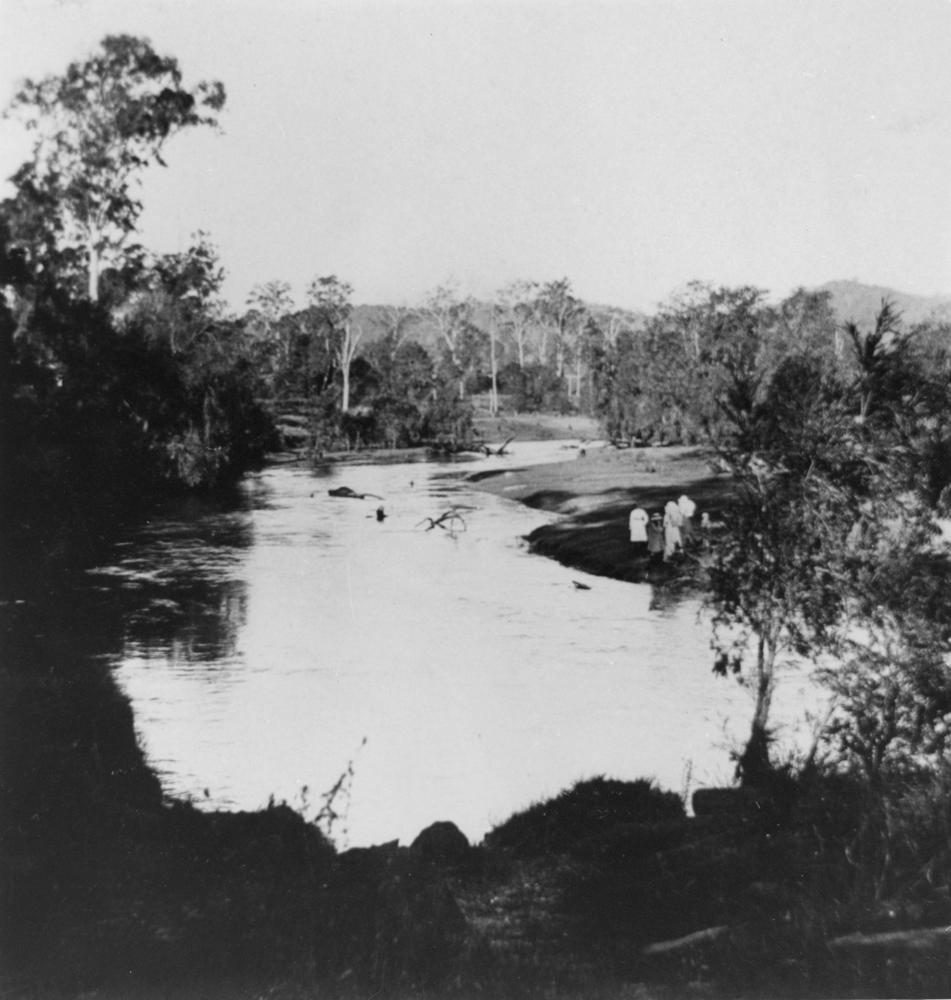 Along the Brisbane River near Wivenhoe Bridge, Brisbane region, 1917 Hunting for Norma's plate. Looking up from the end of Wivenhoe Bridge, Brisbane River 19 April 1917.